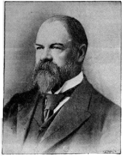 Sir Walter Lawry Buller